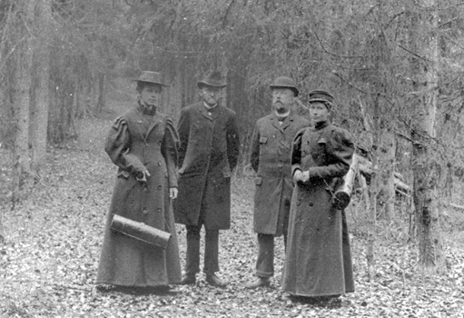 Photo of botanical expedition in Norway, including (from left) Asta Lundell, Ove Dahl, Axel Blytt, Thekla Resvoll ; both women are bearing vasculums. Botanist Axel Blytt died in 1898. The photography is at least 111 years old, and photographers by all probability deseased before 70 years ago. The matematician Fredrik Carl Störmer (d. 1957) was too young to possibly having been the phorographer. Quote Carl Störmer / University of Oslo.